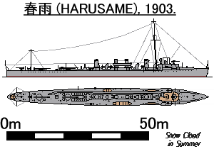 Fig of Japanese destroyer HARUSAME.